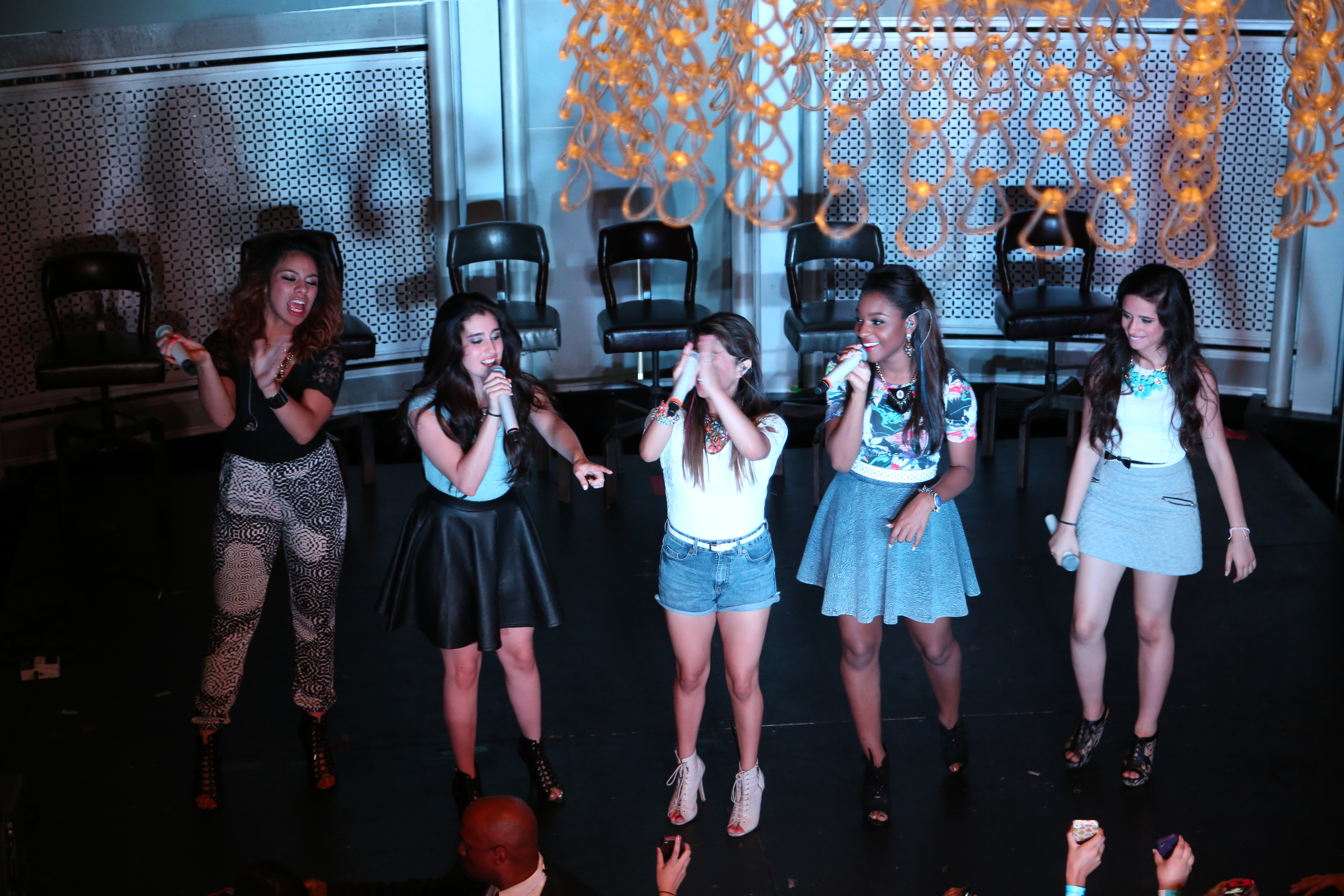 0O3A0430 Fifth Harmony at Hollywood & Highland Center